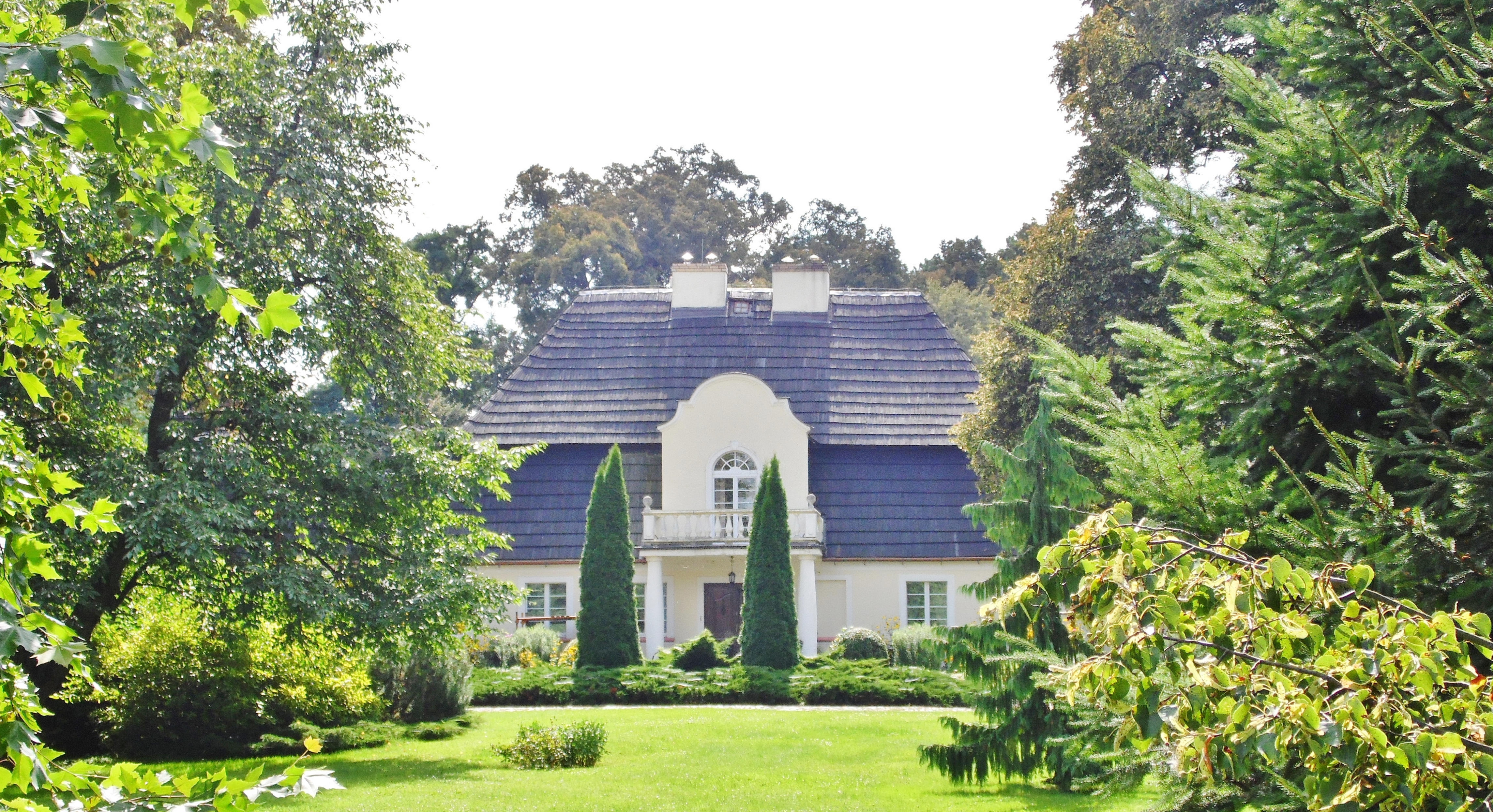 The manor of 2 half of the eighteenth century: the court - Krzycko Upper / Leszno district / province. Greater Poland / Poland